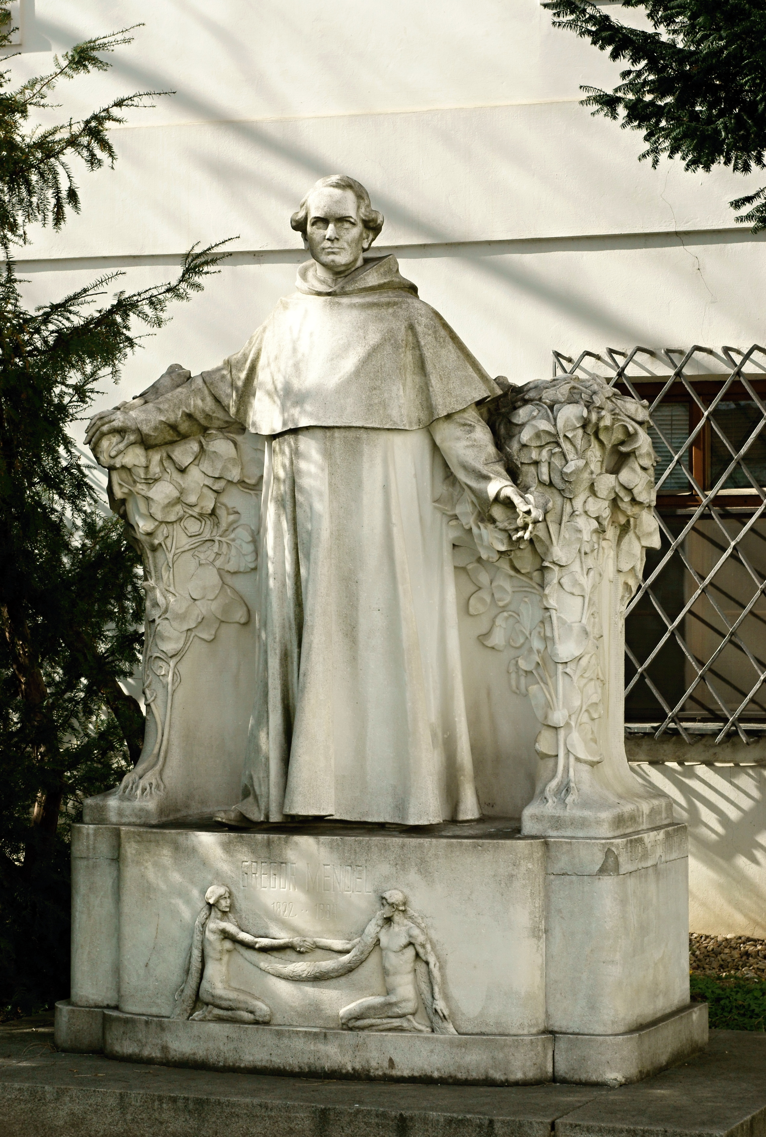 Statue of Gregor Johann Mendel by Theodor Charlemont. Placing date: 1910. Mendel's Square, Brno, Czech Republic.